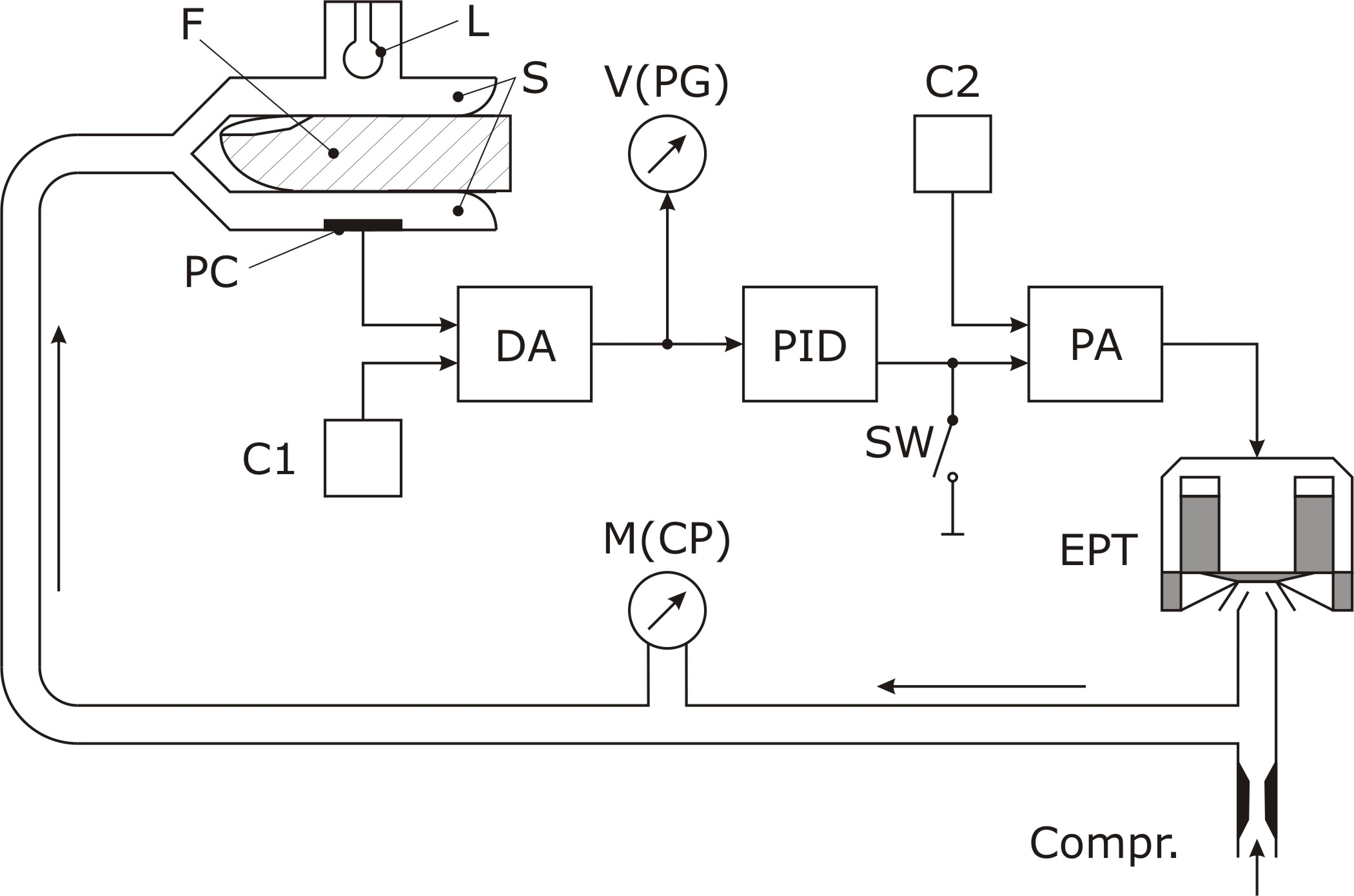 Blochk diagram of Peňáz’ system with single control loop